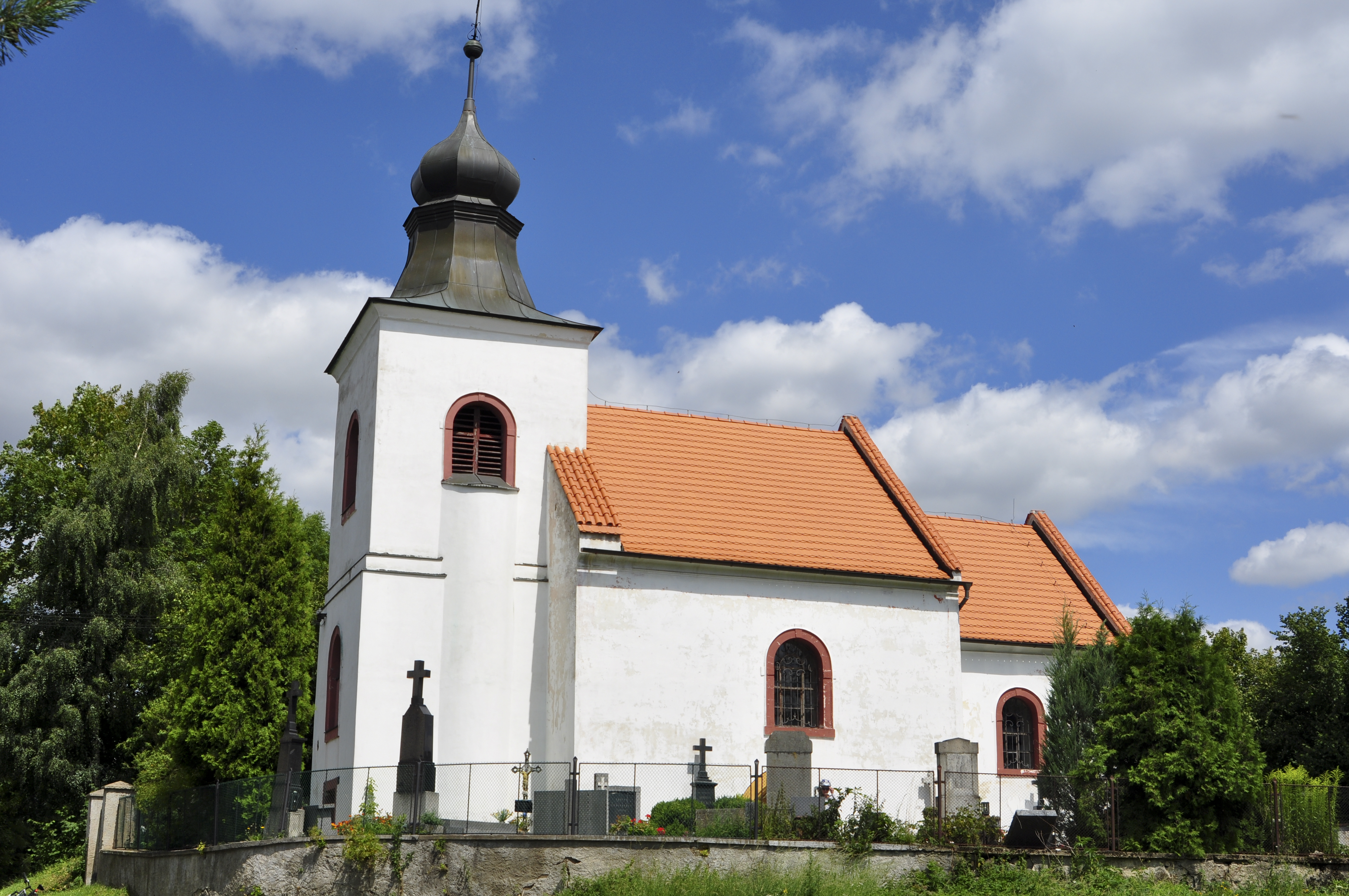 Otice, Saint Nicolas church